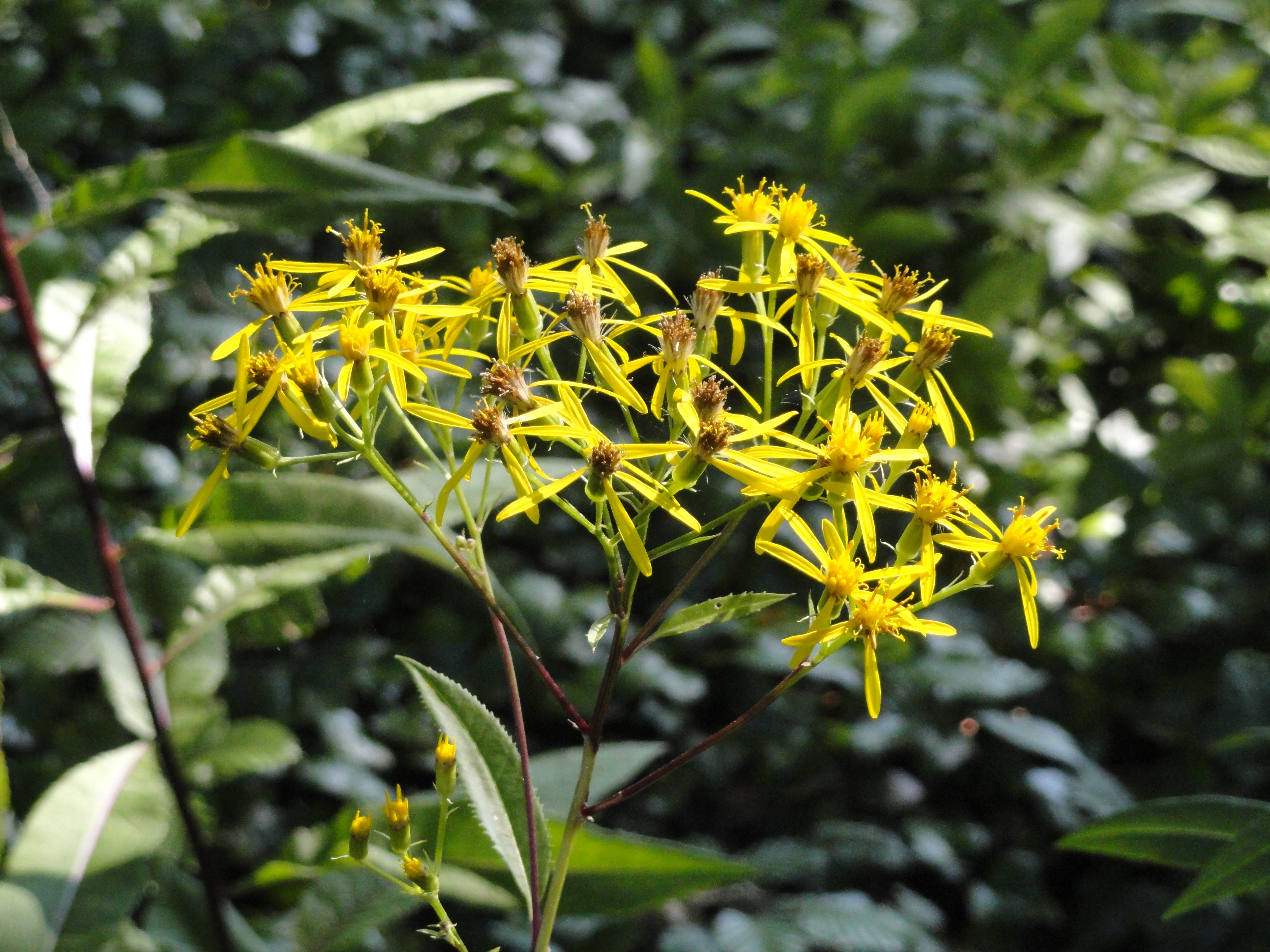 Botanical specimen in the Botanischer Garten, Frankfurt am Main, located at Siesmayerstraße 72, Frankfurt am Main, Germany.